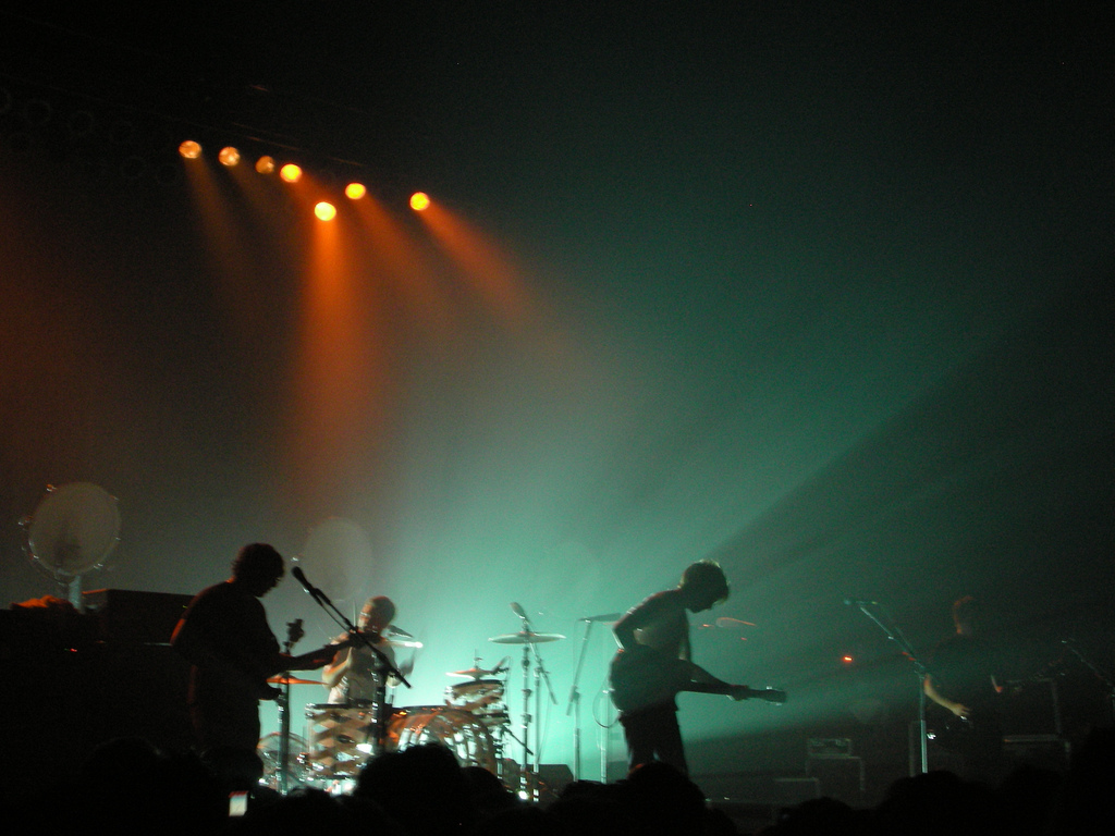 The Arctic Monkeys.arctic monkeys